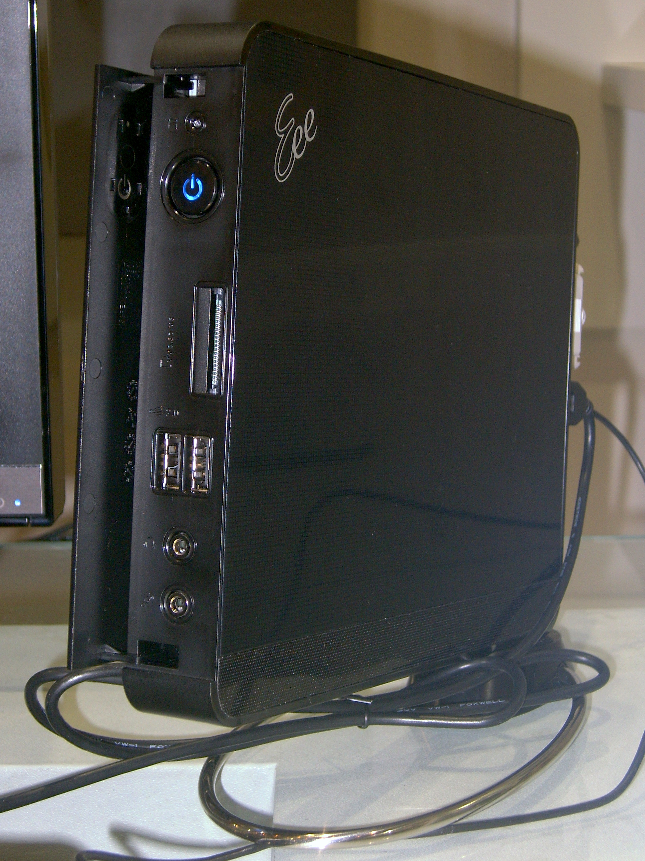 2008 Computex: ASUS Eee Box in black.